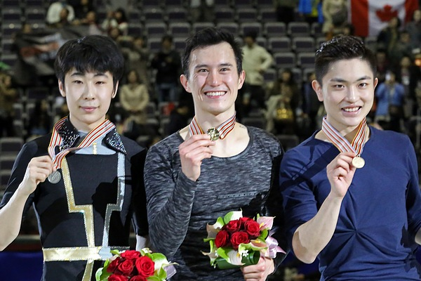 Patrick Chan during the 2016 Four Continent Championships